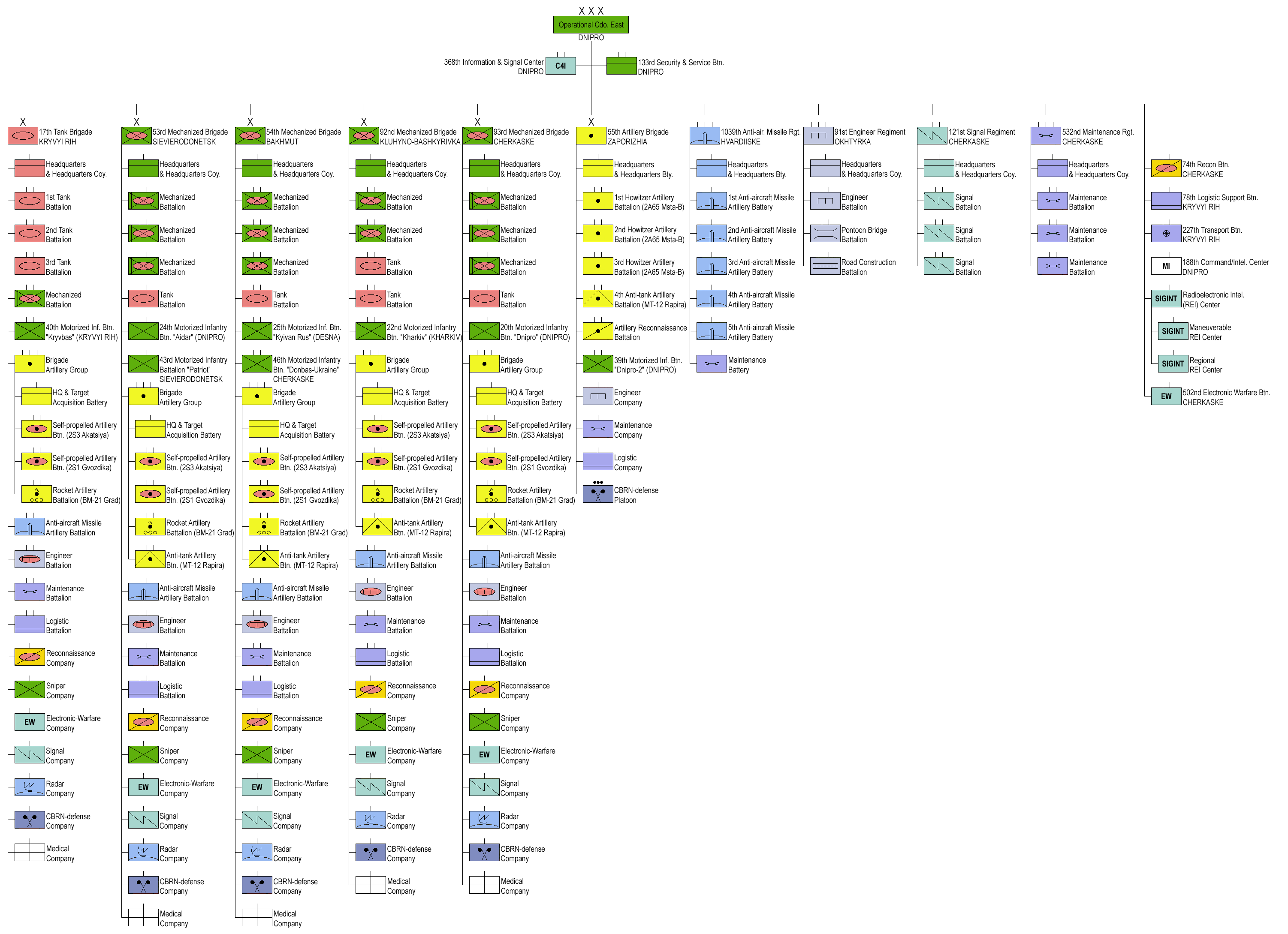 Structure of the Ukrainian Operational Command East in 2017 as per the best available Ukrainian language sources.